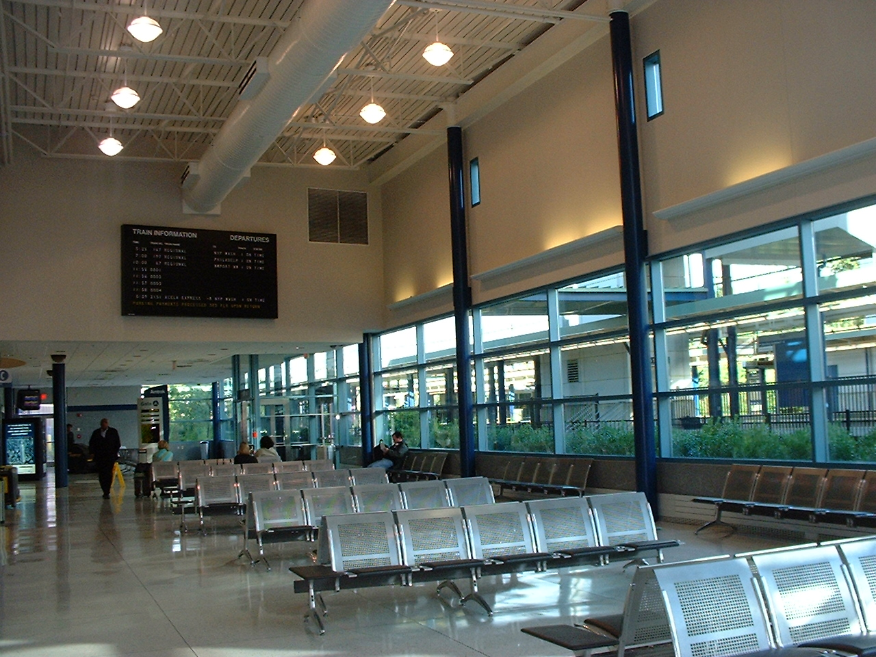 Amtrak waiting area at Route 128 Station in Westwood, Massachusetts